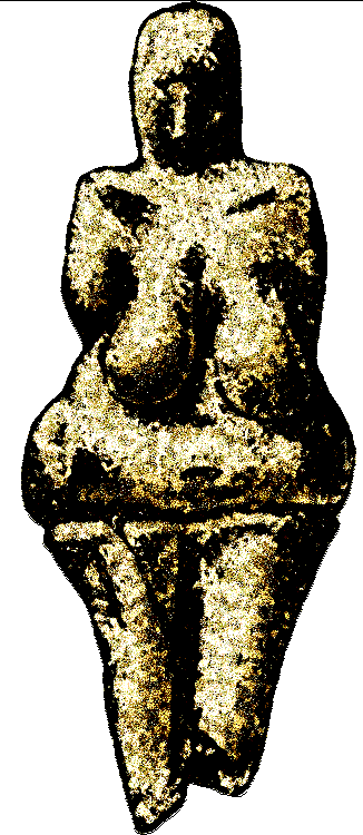 Ceramic Venus of Dolní Věstonice (Brno, Czech Republic)